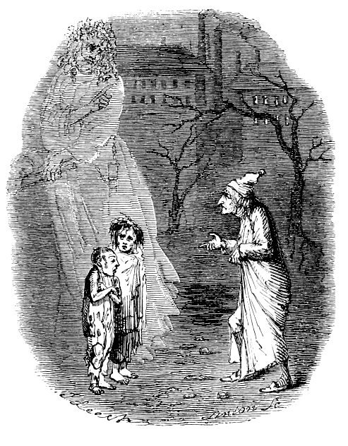 from A Christmas Carol by Charles Dickens